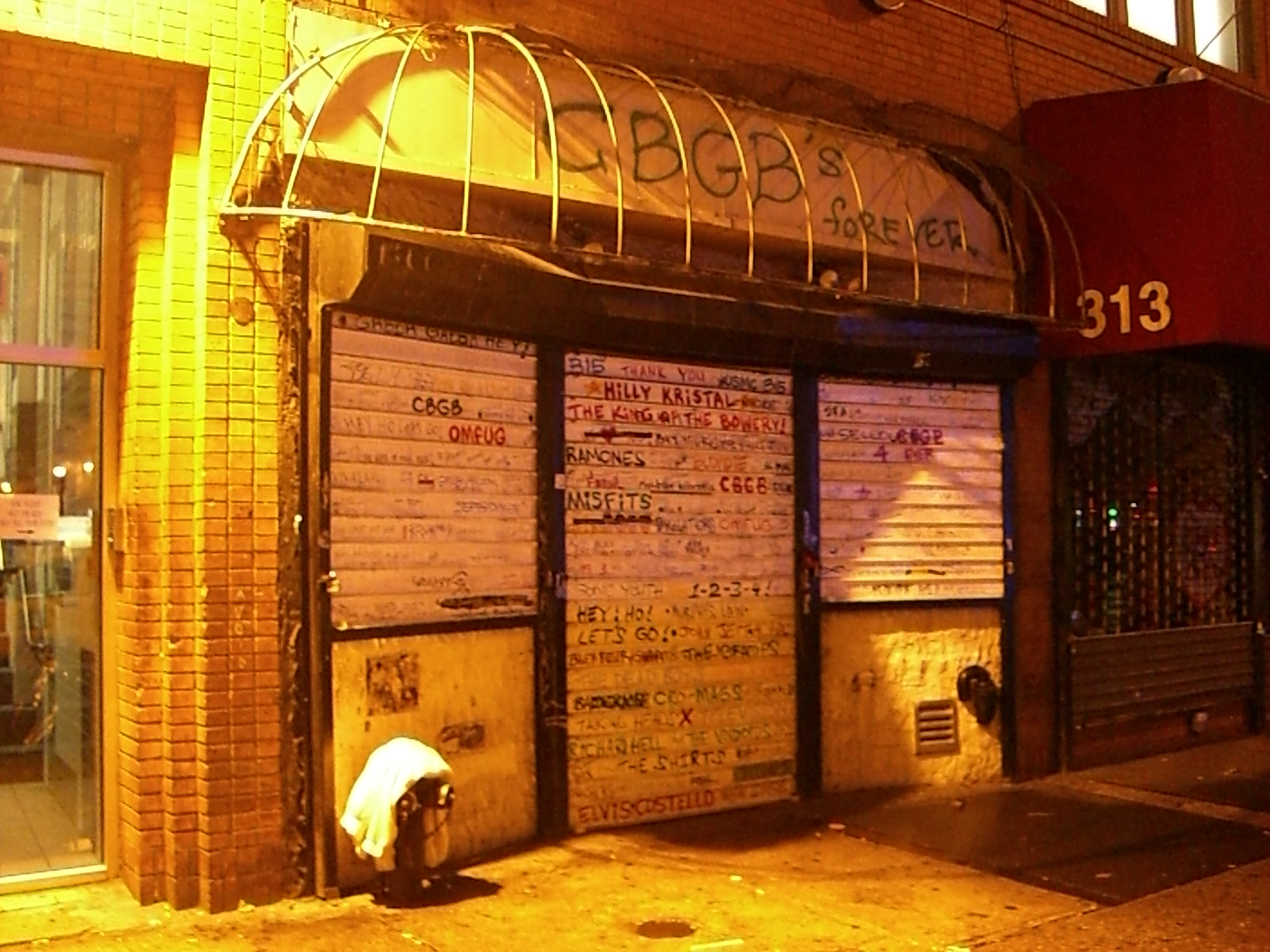 This is a photo of CBGB after they closed and the awning was taken down.